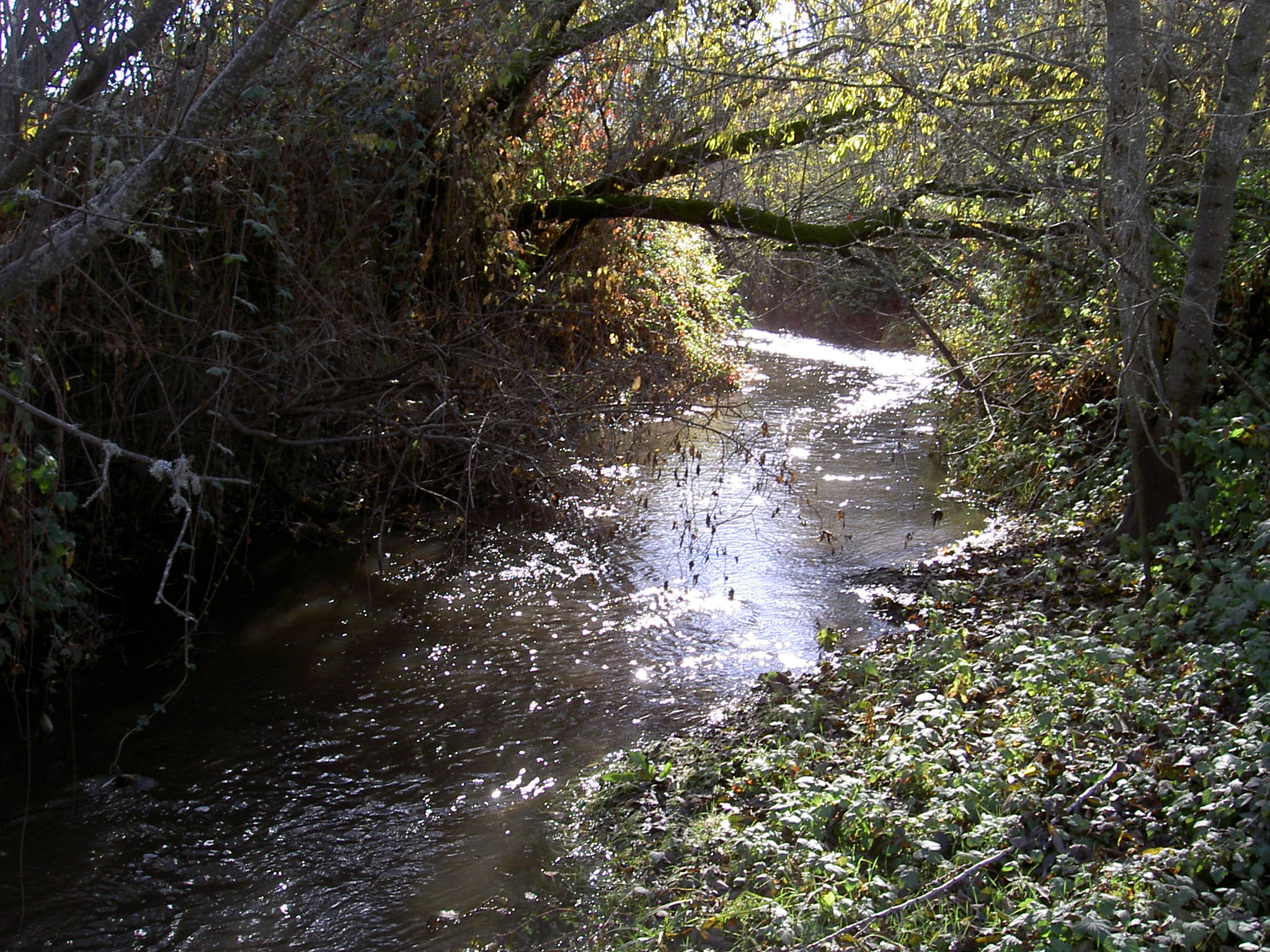 Photo of Green Valley Creek in Sonoma County, taken from Ross Station Road bridge by Stephen Gold on December 7, 2007. Unedited.